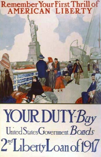 American WWI poster. 1917. Text : Remember Your First Thrill of AMERICAN LIBERTY YOUR DUTY - Buy United States Government Bonds 2nd Liberty Loan of 1917